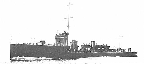 HMS Archer (1911)